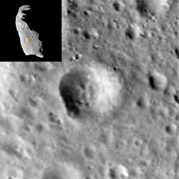 Detail view of crater Fingal on (243) Ida